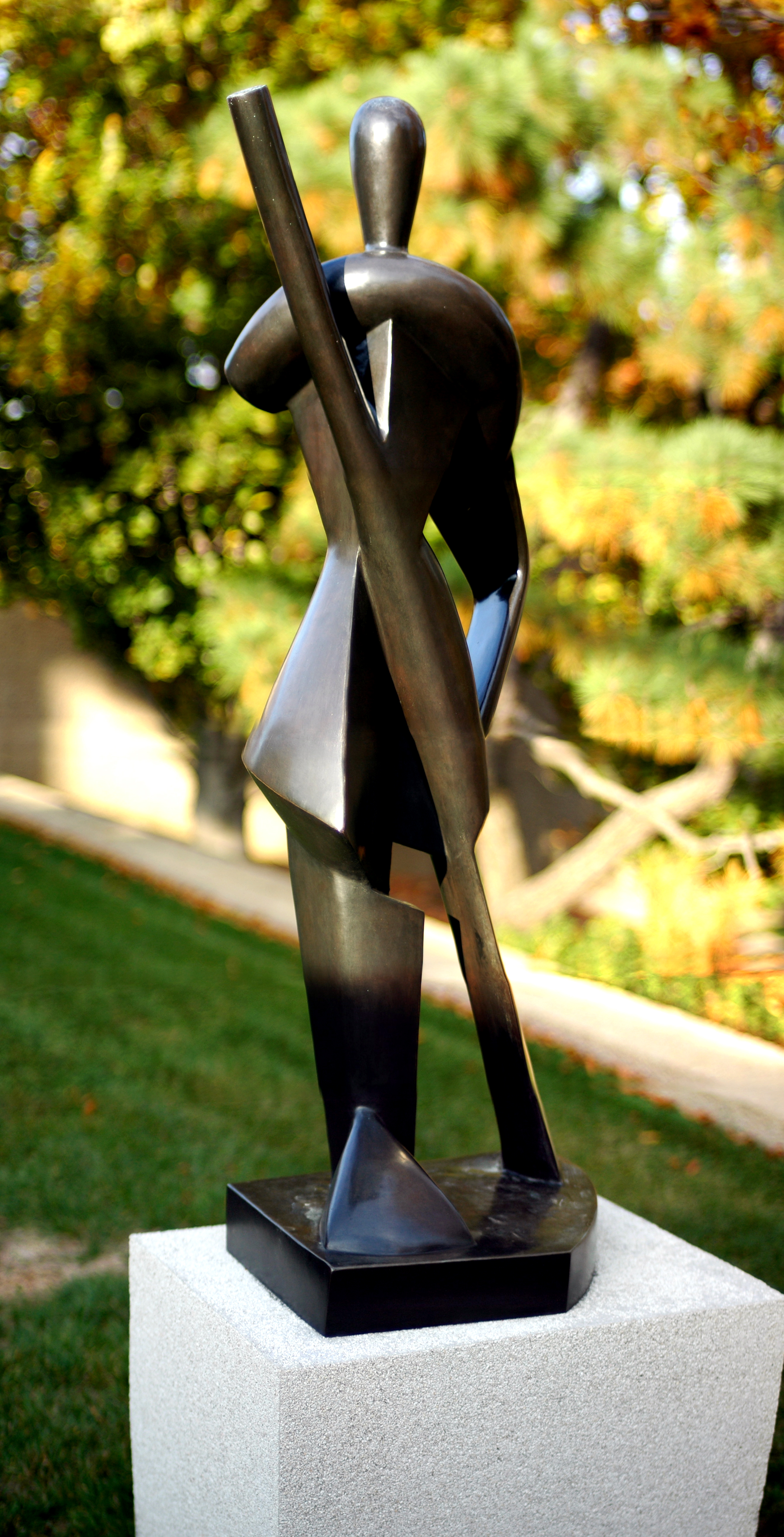 Alexander Archipenko American, b. Kiev, Ukraine, 1887 - 1964 The Gondolier, 1914/reconstructed 1949-50/enlarged and cast 1957 Bronze 72 1/8 x 24 3/4 x 15 5/8 in. (181.0 x 63.0 x 39.8 cm) Gift of Joseph H. Hirshhorn, 1966 (66.77 )